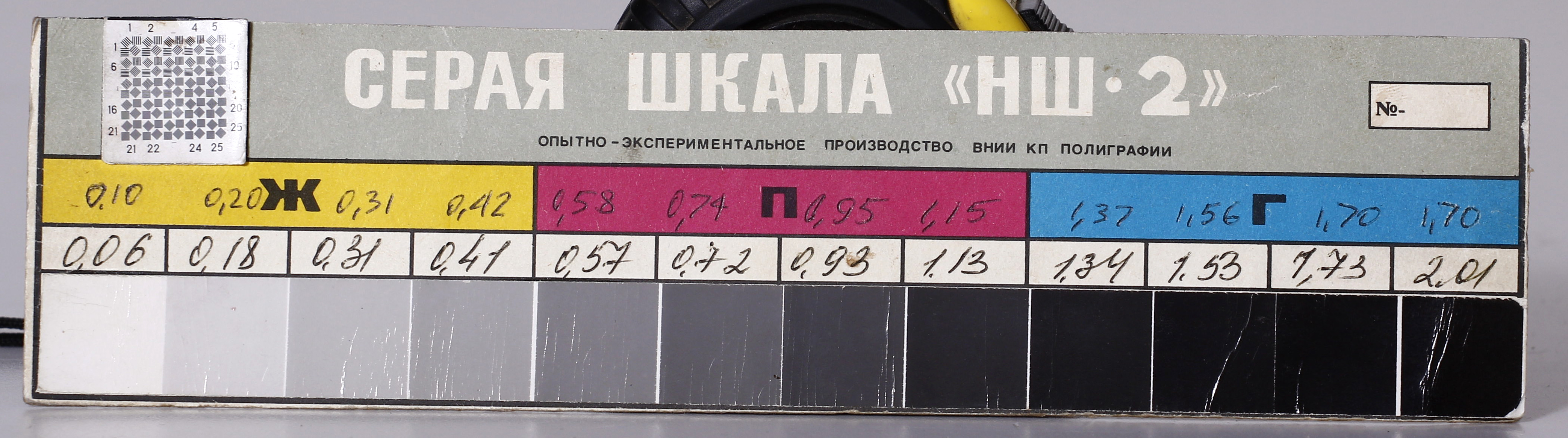 Monochrome scale and mire